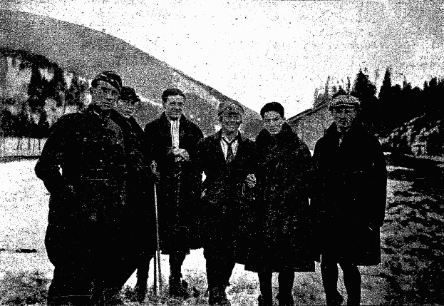 Polish cross country skiers during competition in 1922 in Worochta::Pawłowski, Mückenbrunn, Krzeptowski, Ela Ziętkiewiczowa, Rozmus, Kaliciński